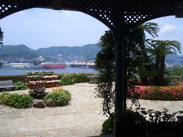 Location: Nagasaki_(city).